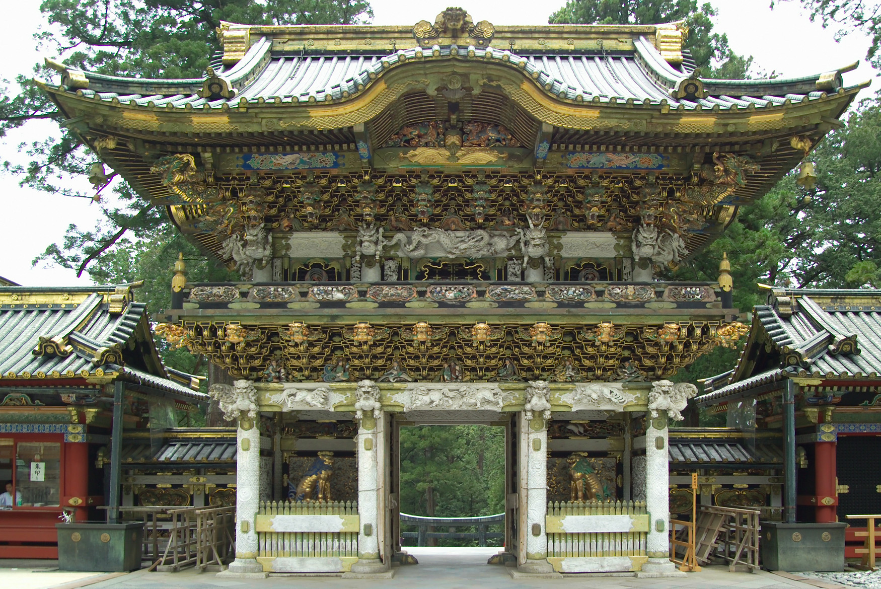 Yomeimon, the most famous gate at Toshogu, Nikko, Tochigi Prefecture, Japan, a UNESCO World Heritage Site. This is the view from the inner courtyard looking out through the gate. The top of a tall torii, located at the foot of the stairs leading up to the gate, is visible beyond the gate. I took the photo and contribute the file to the public domain. However, people and institutions may retain rights to images in it.